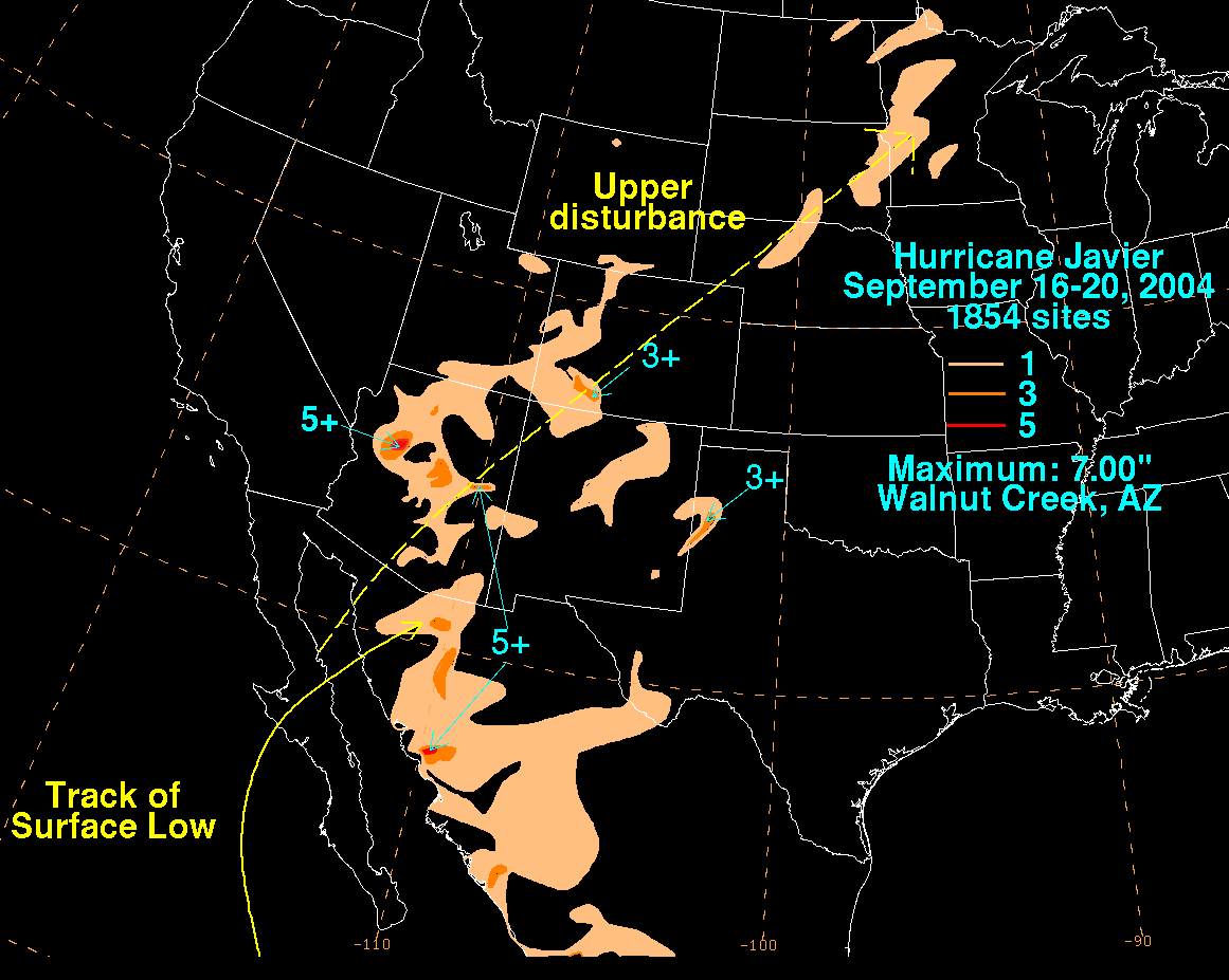 Rainfall produced by Hurricane Javier during September 2004.